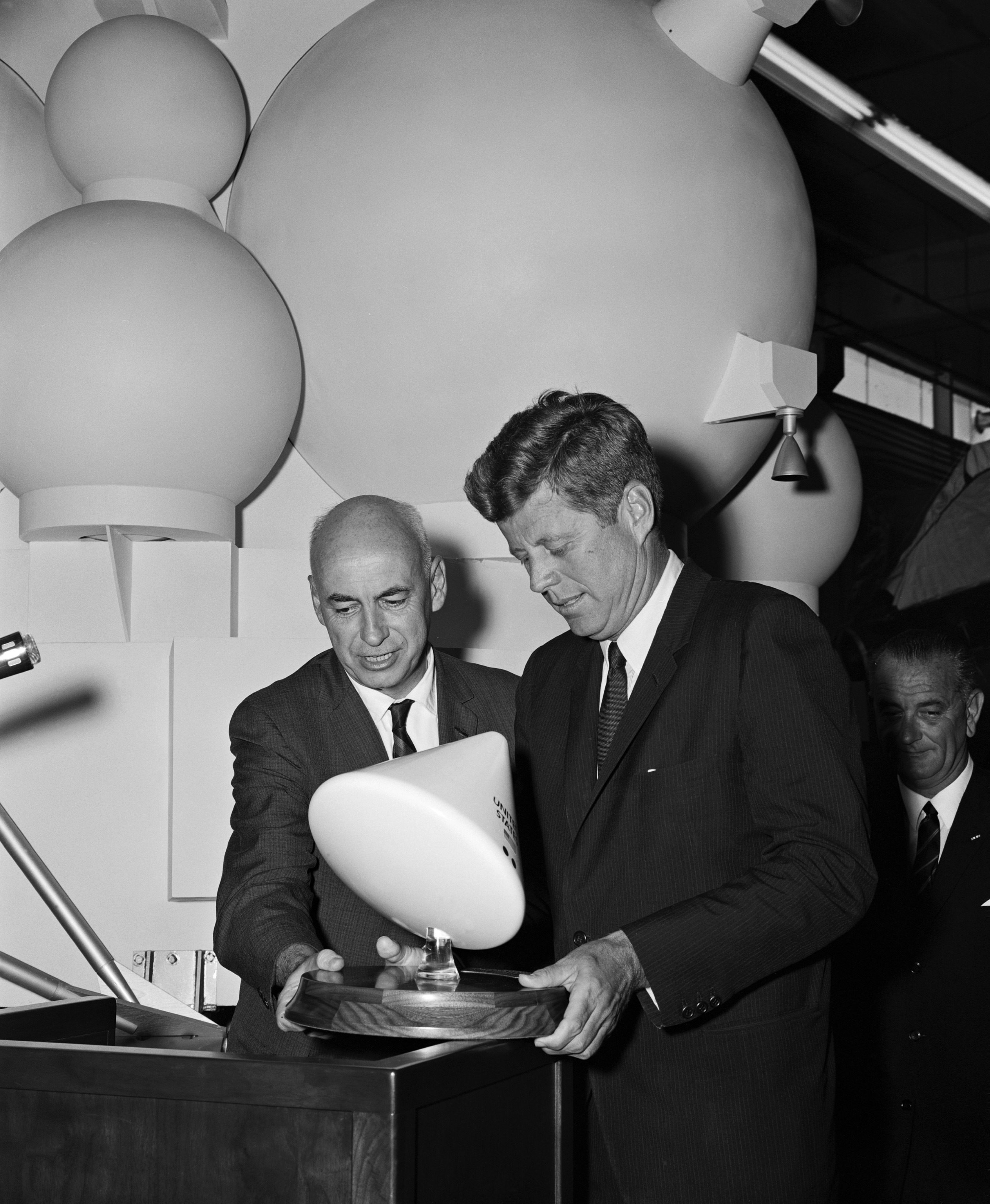 S62-03989 (1962) --- Dr. Robert R. Gilruth (left) and President John F. Kennedy look at a small model of the Apollo Command Module, expected to play an instrumental role in America's efforts to land astronauts on the lunar surface by decade's end. Vice President Lyndon Johnson seen at right.